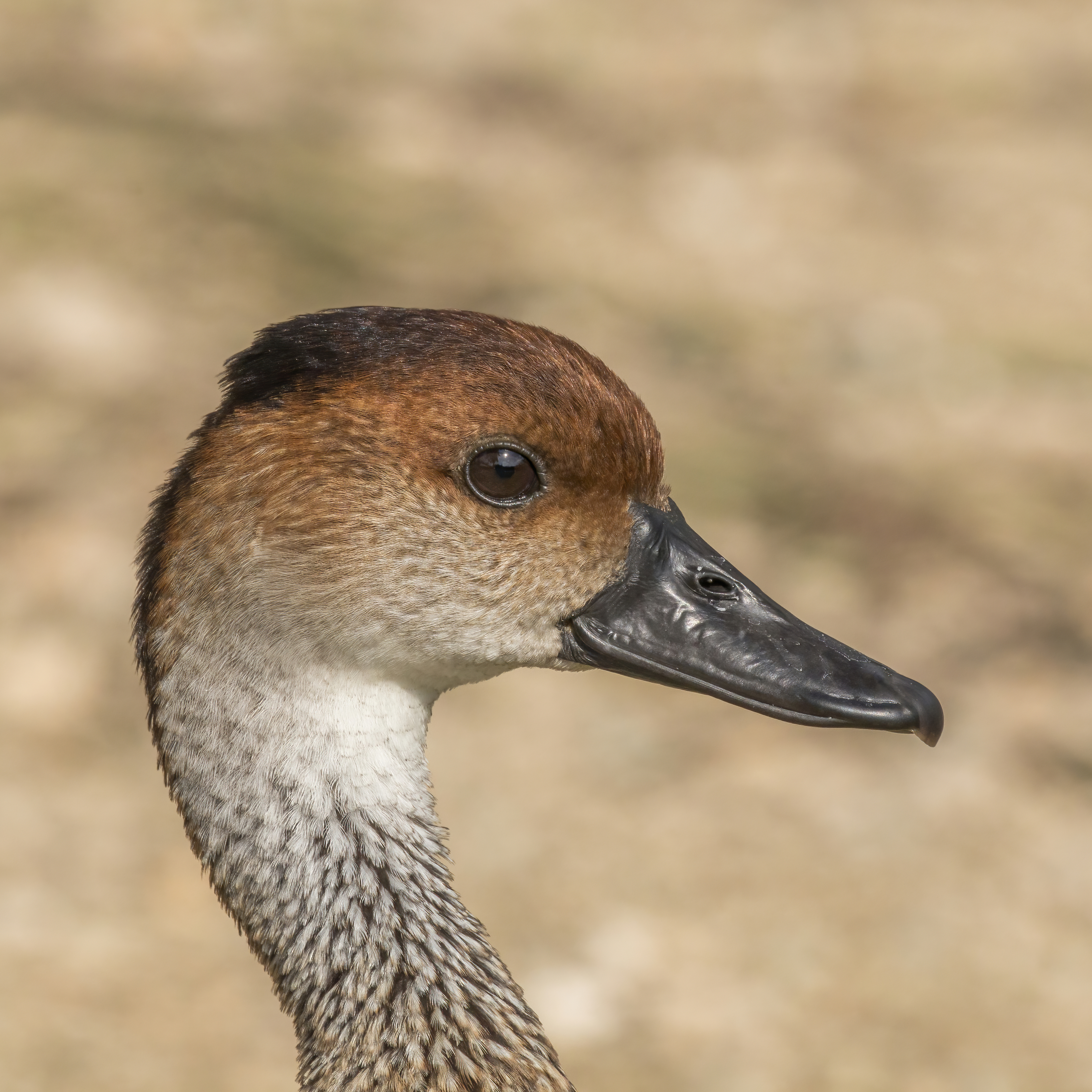 West Indian whistling duck (Dendrocygna arborea) head, Grand Cayman